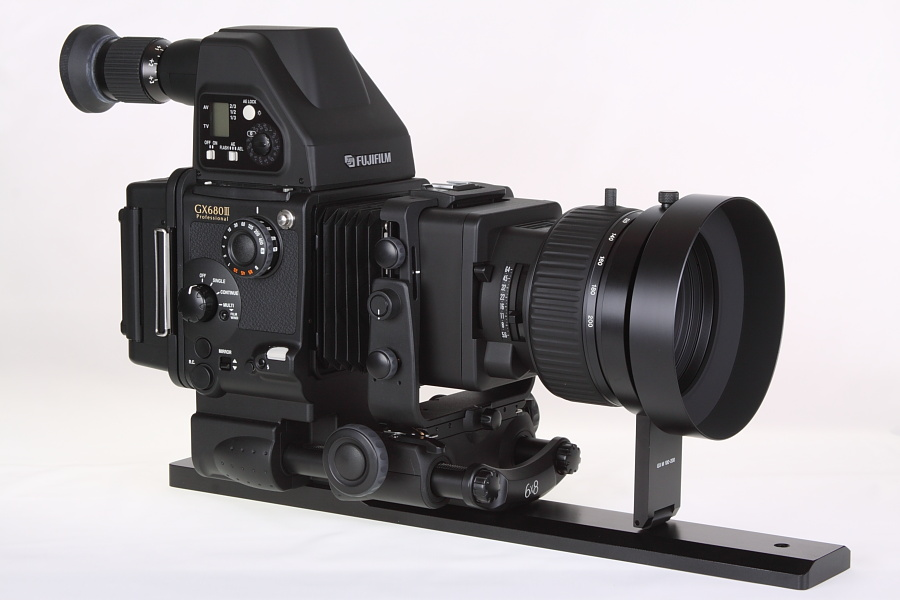 Fuji GX680III Professional Body with Standard Belows, AE-Viewfinder III, Roll Film Holder III (landscape position), EBC Fujinon Zoom-Lens GX M 100-200mm 1:5.6 with Hood, Support Ring and Rail